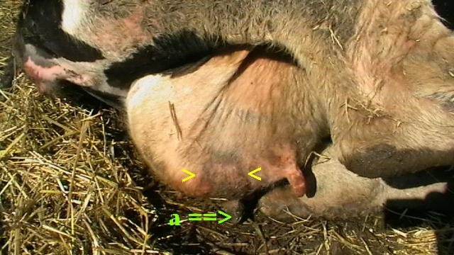 Gangrenous mastitis in a cow, Day 10; green arrow : complete necrosis of the teat; yellow arrows : limits of the gangrenous tissue, but the necrotic area is not well delimited on the upper part of the udder. Walon: Mamite å grangrin a ene vatche (å dijhinme djoû); vete fritche : moirt del tete; djaenès fritches : boirds netes des moitès tchås sol pés, mins li grangrin continowe dizo l' pea, pa padzeu.